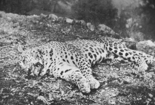 Picture of the Panar Leopard, killed by Jim Corbett in India in 1910.